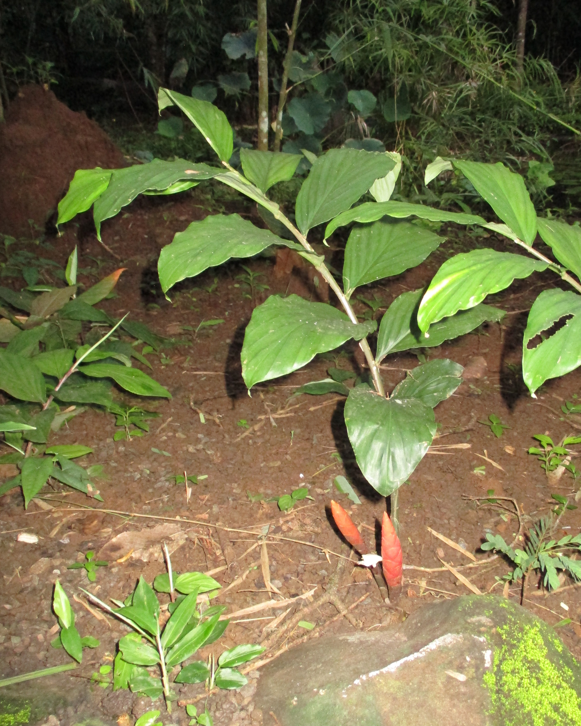 Zingiber collinsii Vietnam, Cat Tien National Park, ecosystem services, conservation15 August 2016